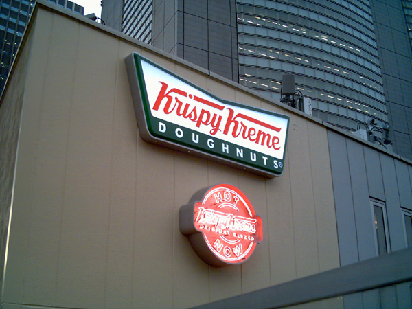 Krispy_Kreme_Doughnuts Japan photography day, 2006.12.13. photography person kici